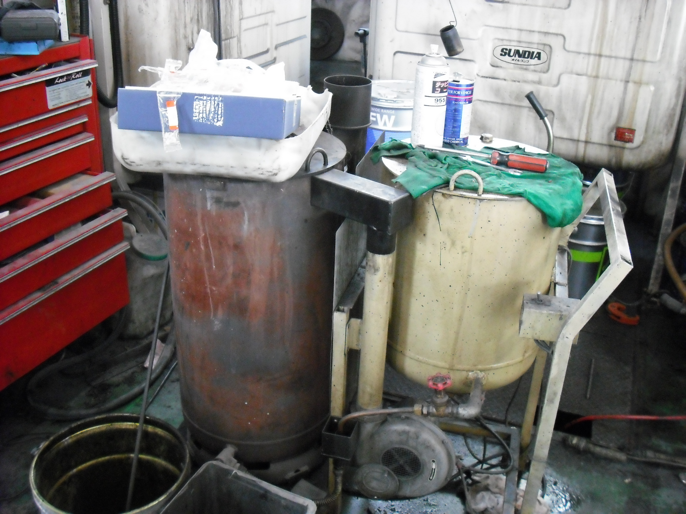 Wasted oil-fuelled stove at a car maintenance factory. Oil will be burnt in the tank (on the left), controlled by the device on the right